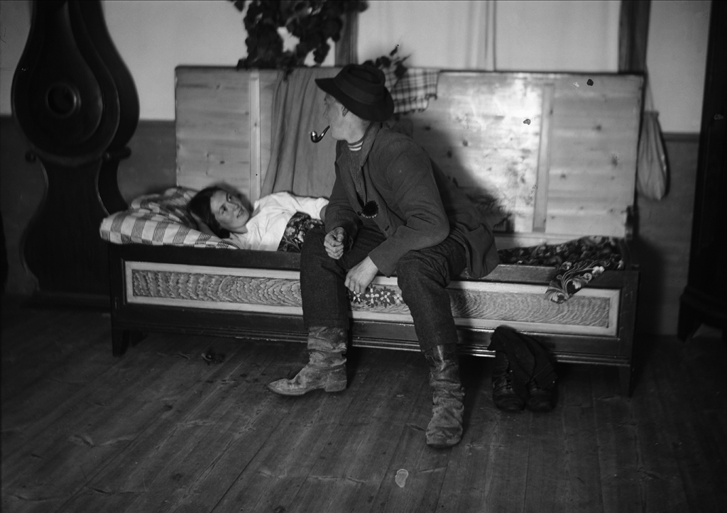 Nattfrieri. En man sitter på sängkanten och pratar med liggande kvinna. Värmland, Mangskogs socken.